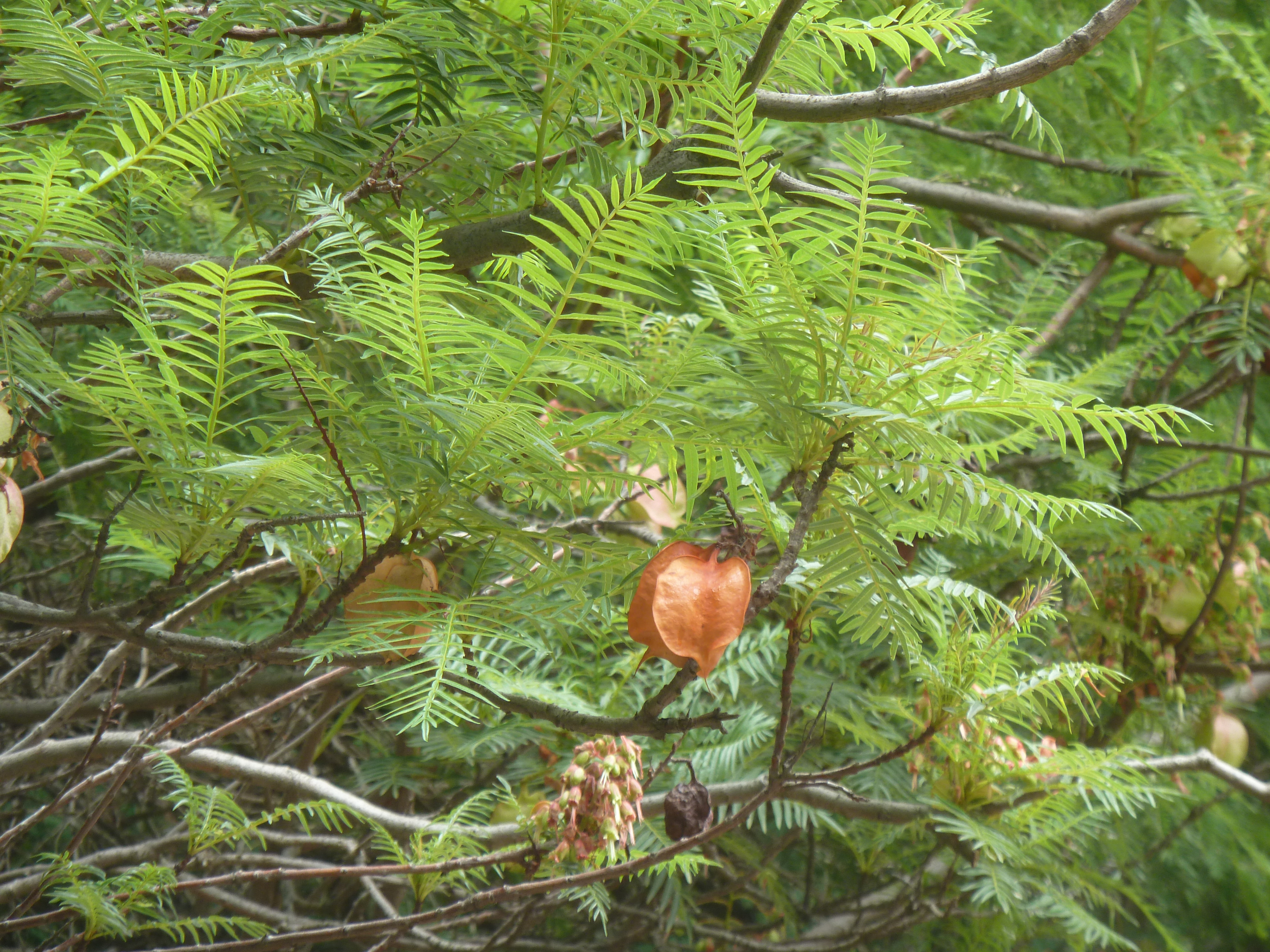 Foliage, flowers and fruit capsules of a Transvaal red balloon in the Manie van der Schijff Botanical Garden, Pretoria